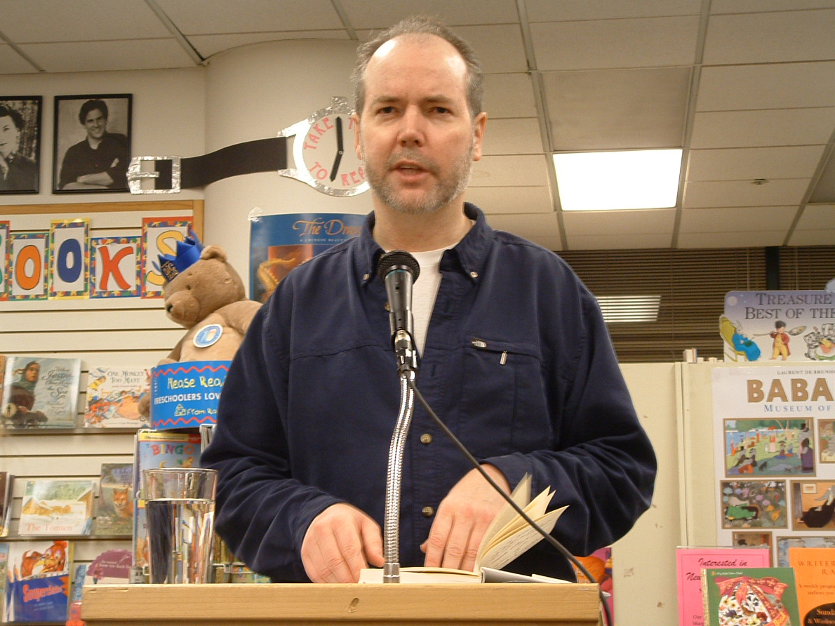 Douglas Coupland reading Eleanor Rigby at A Clean Well Lighted Place for Books in San Francisco.